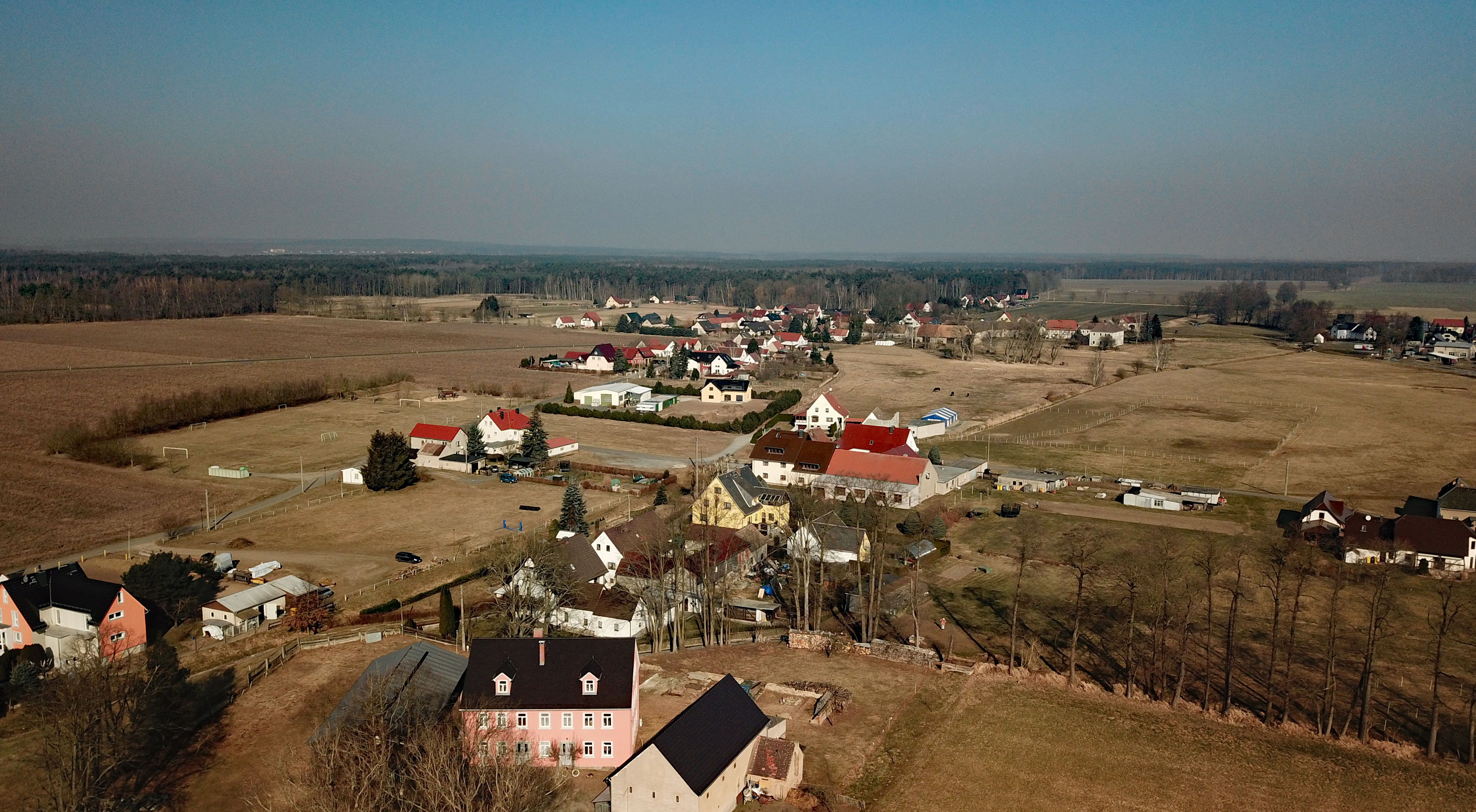 Schönau (Ralbitz-Rosenthal, Saxony, Germany) Hornjoserbsce: Powětrowy wobraz Šunowa z juha.